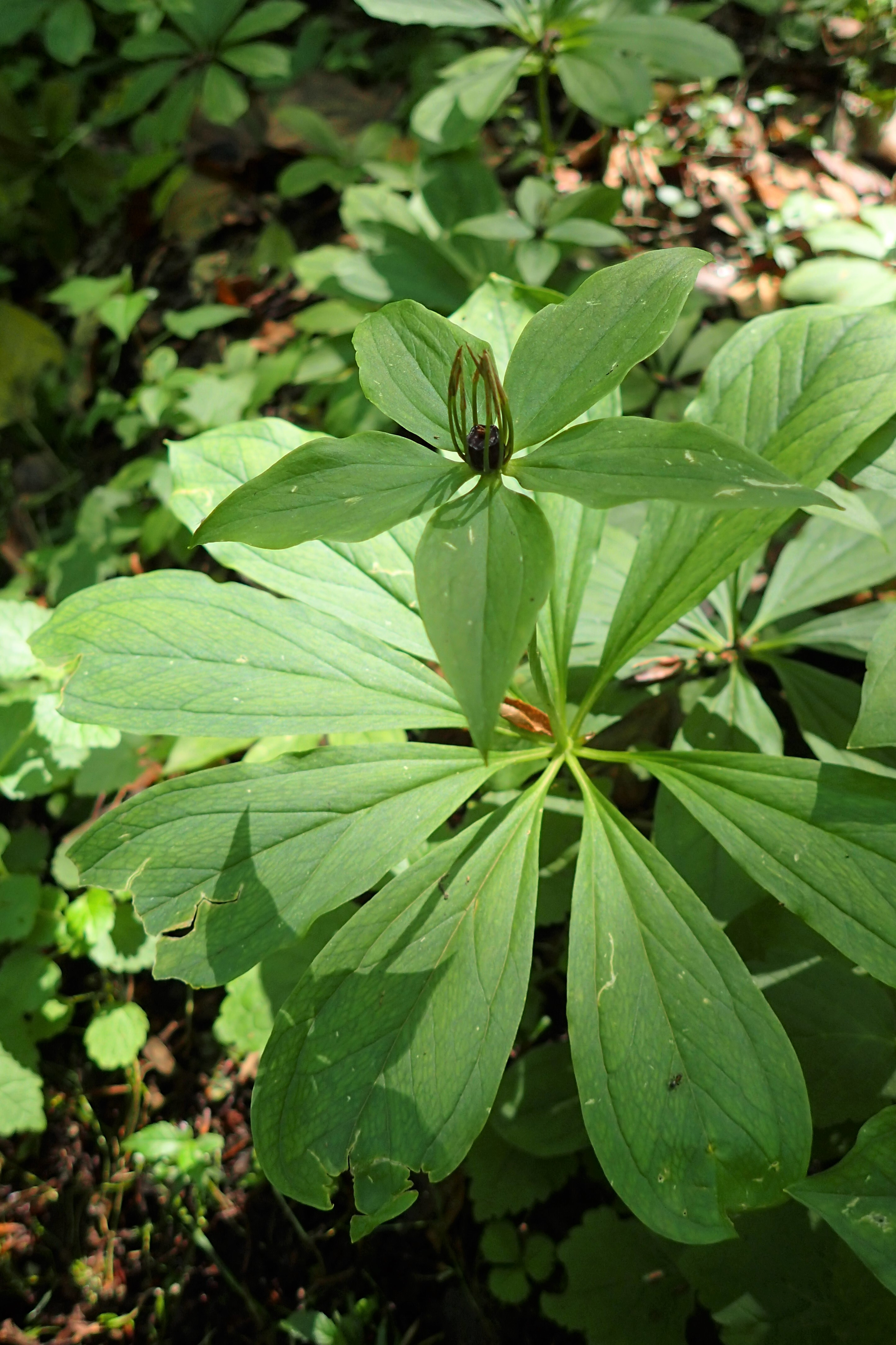 Paris incompleta in Batumi (Georgia)